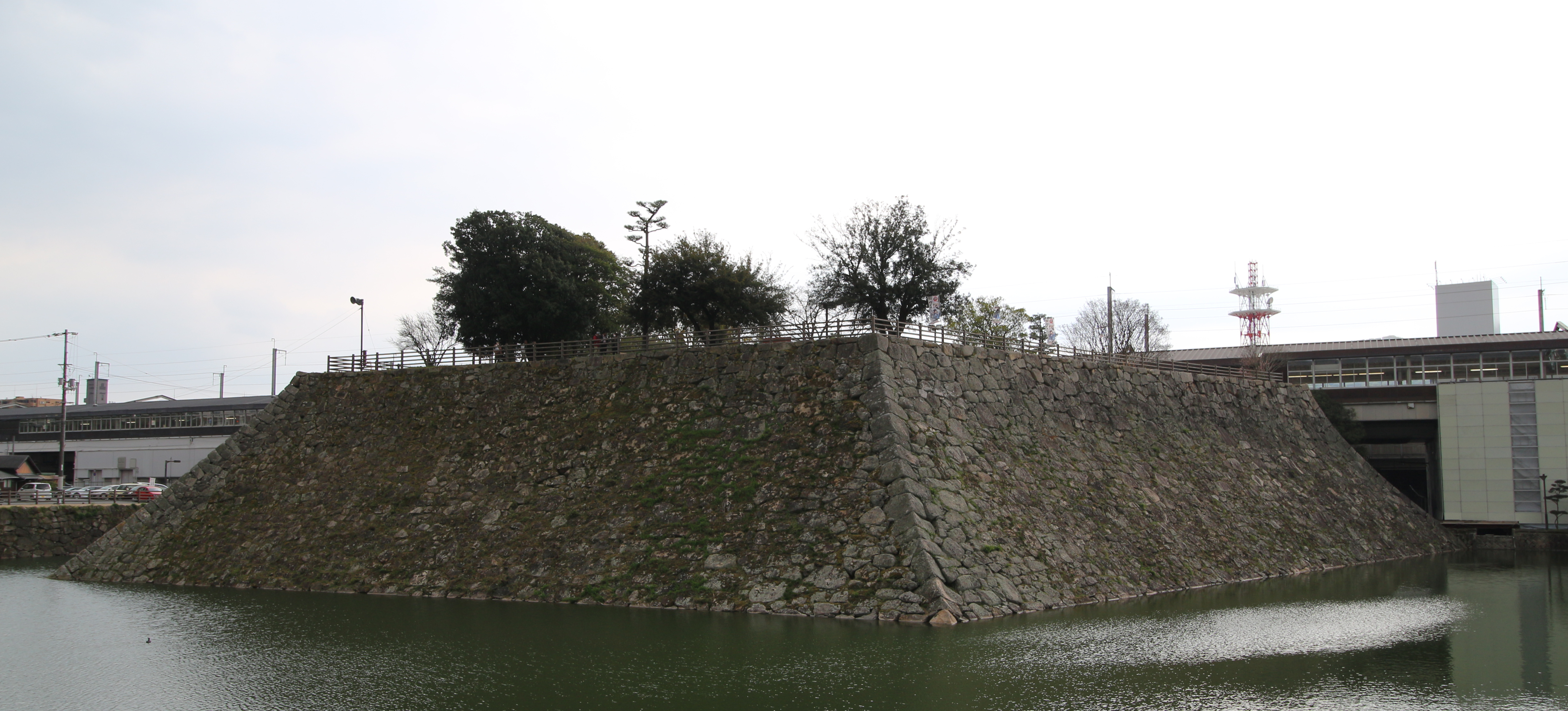 Hommaru of Mihara Castle in Mihara, Prefecture Hiroshima.